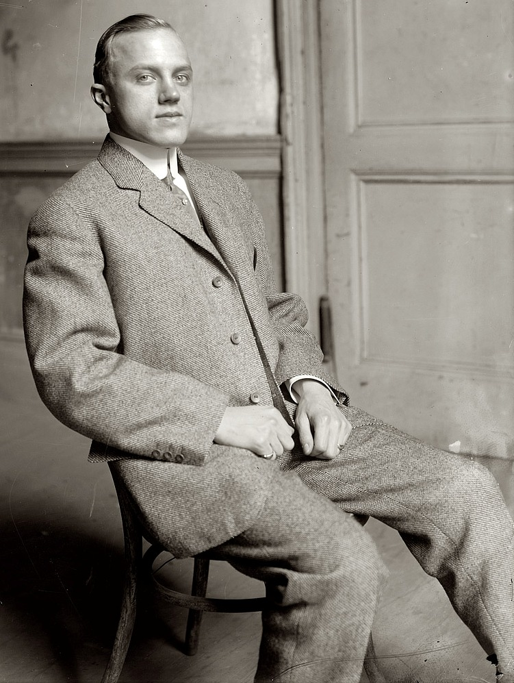 billiards player Calvin Demarest